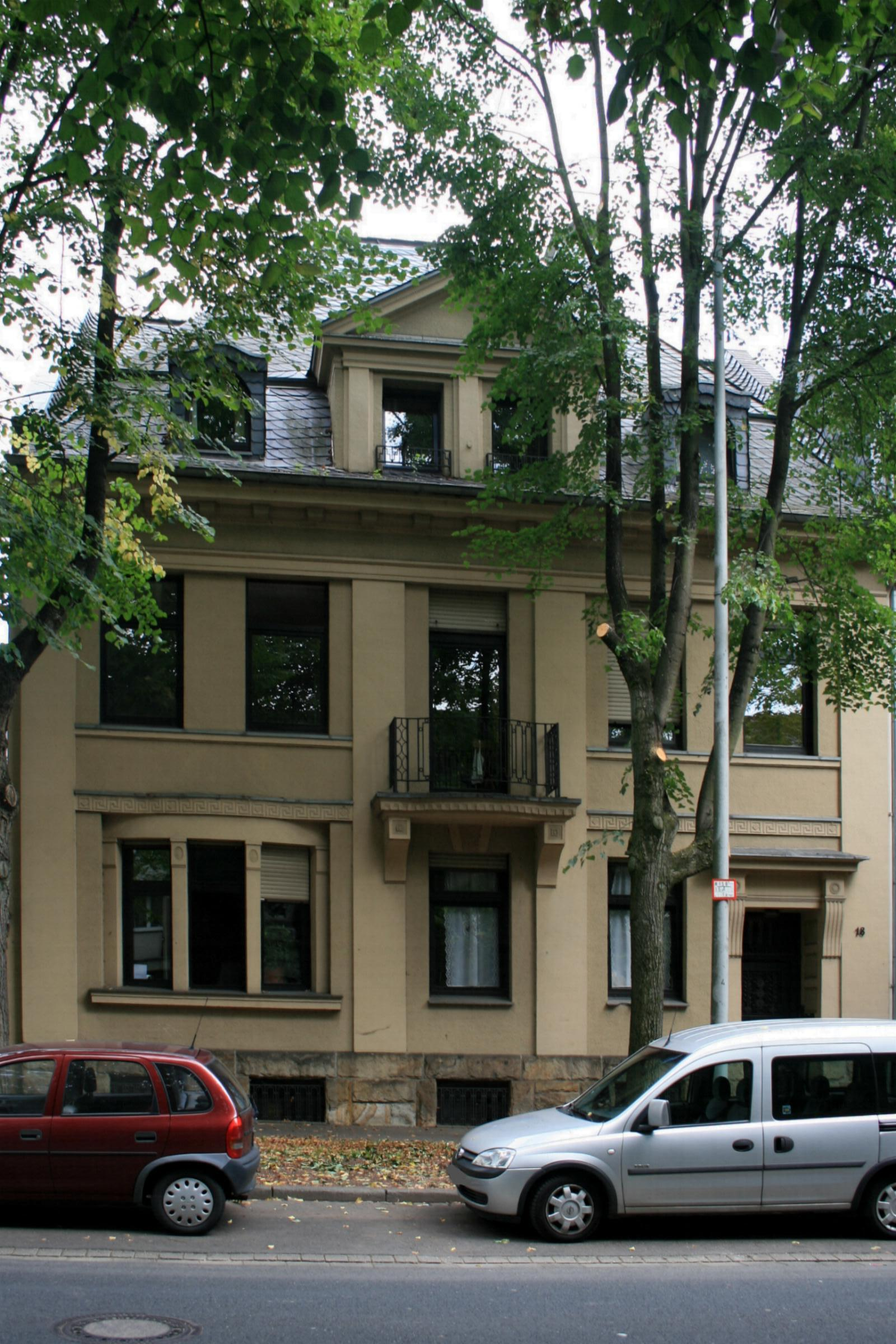 Cultural heritage monument No. T 015 in Mönchengladbach